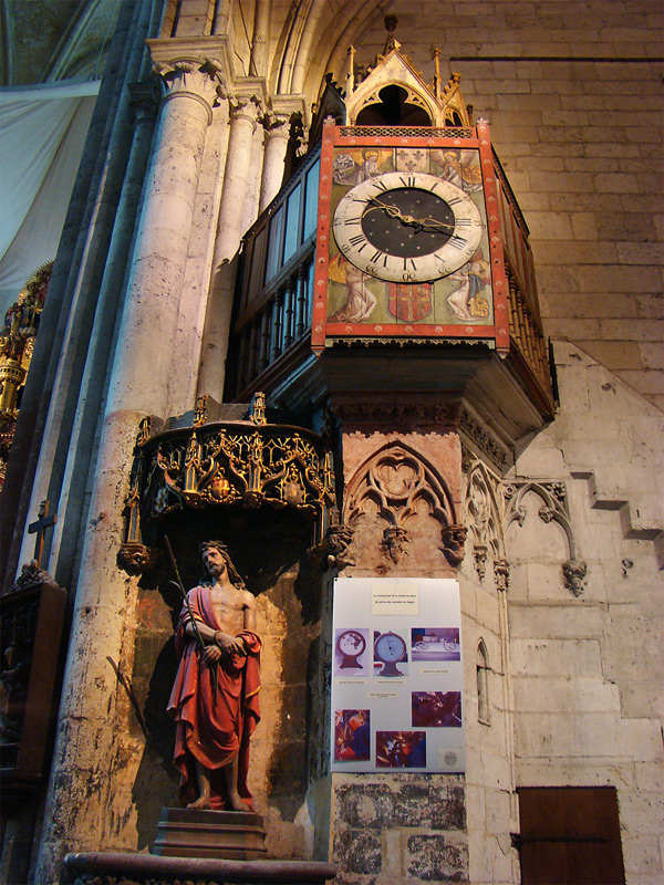 Beauvais Cathedral, Oise, Picardie, France. 14th Century chiming clock.